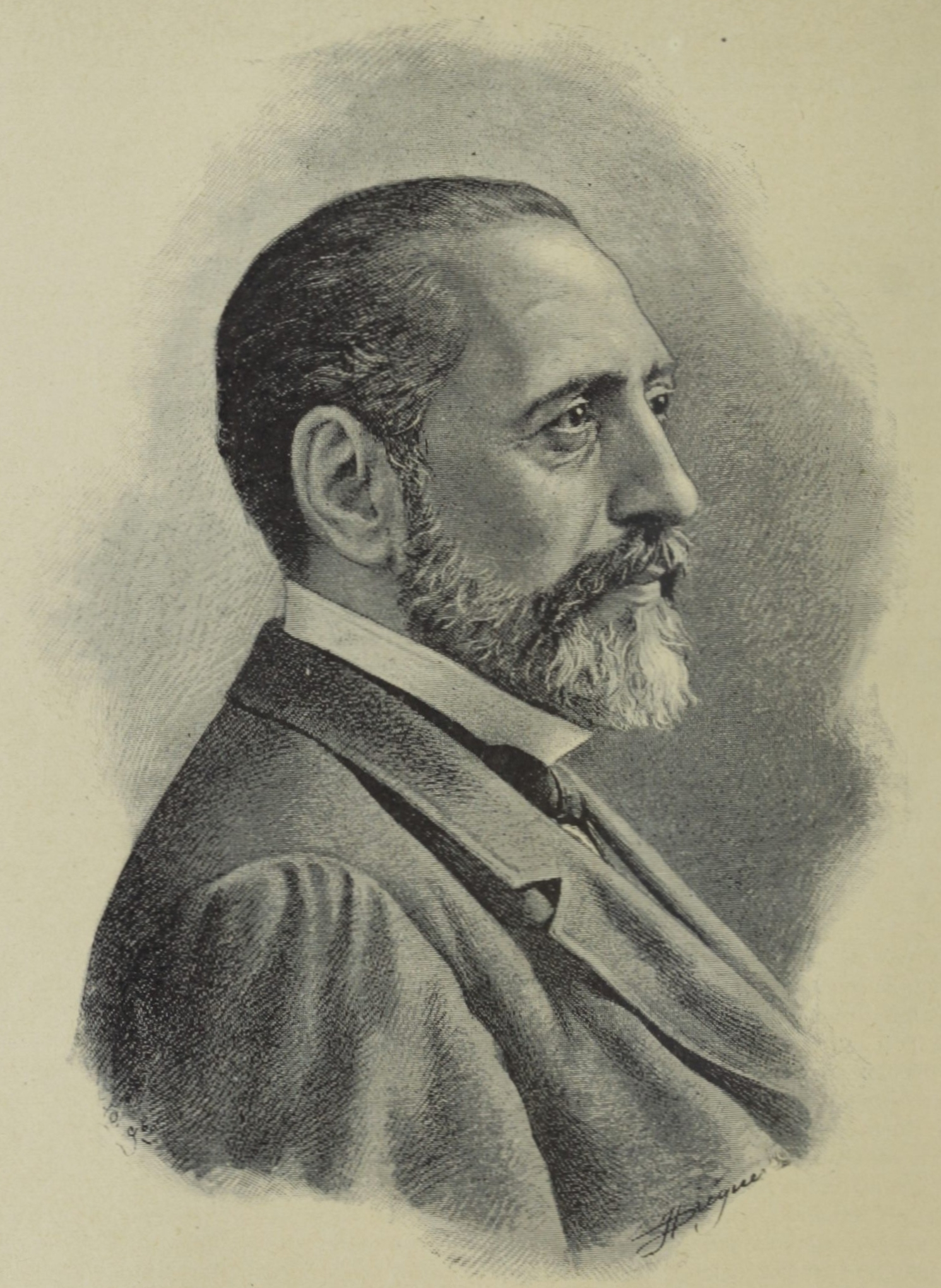 Francisco Asenjo Barbieri (1823–1894), Spanish composer and author of literary and music historical works.